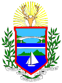 Coats of arms of Macanao Peninsula municipality, Nueva Esparta state, Venezuela